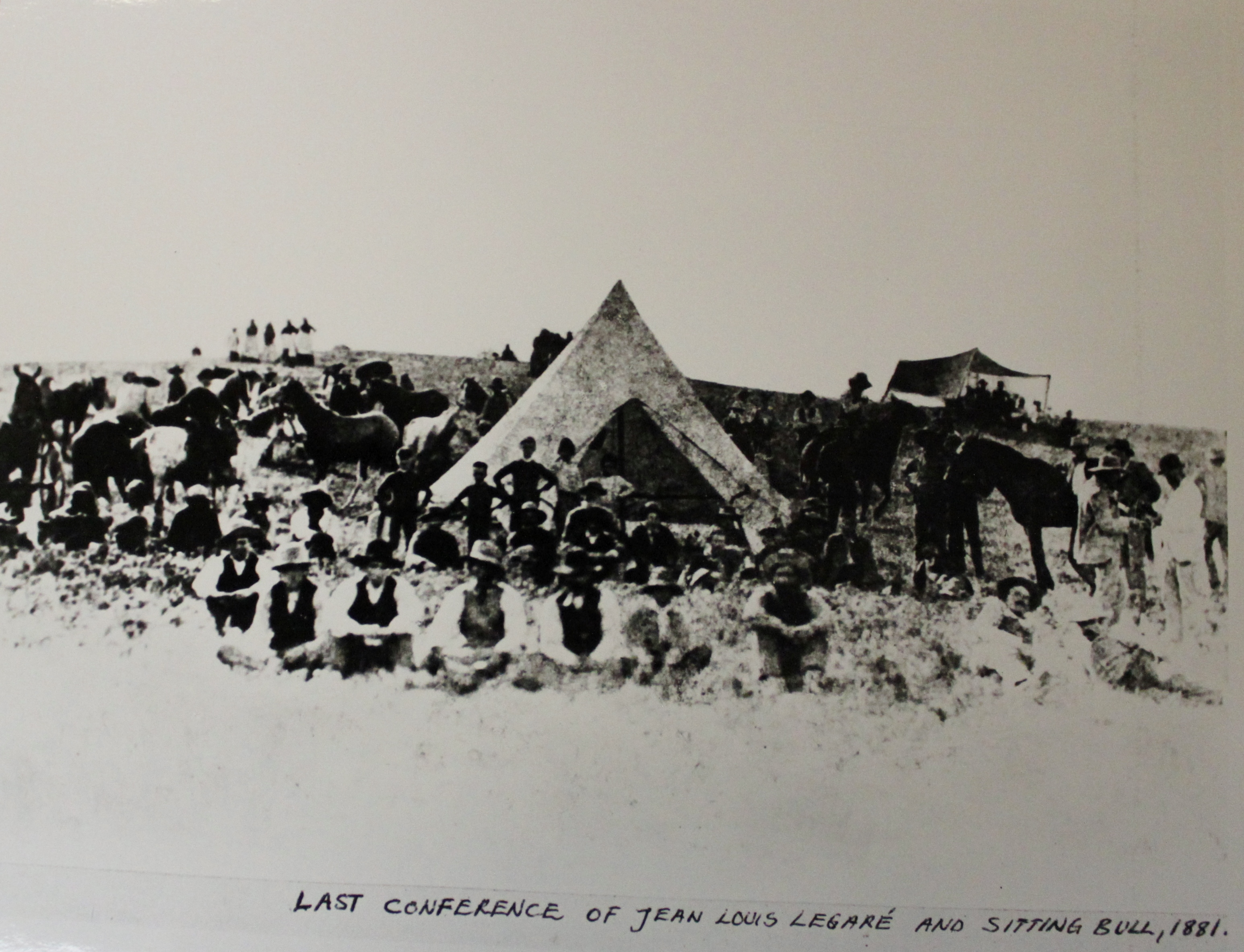 Last Conference between Legare and Sitting Bull